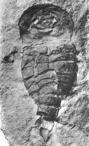 Crop of file in filename